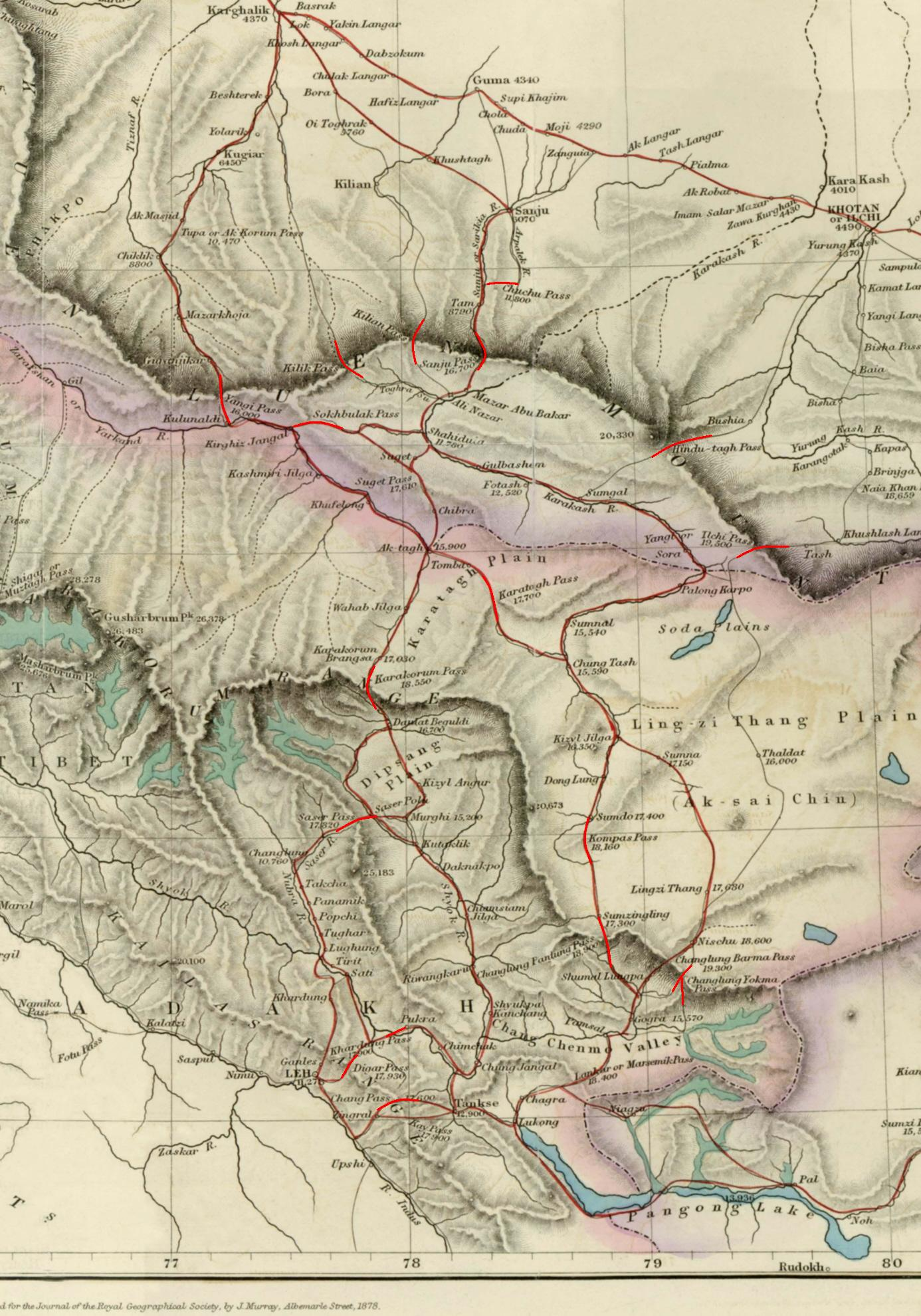 Image of map of the Baltistan, Aksai Chin, Chinese Turkestan in maps of Central Asia. The international border between the British Indian Empire (including the Kashmir region) and Chinese Turkestan is shown two-toned purple and pink. From the article, "On the Geographical Results of the Mission to Kashghar, under Sir T. Douglas Forsyth in 1873-74" by H. Trotter Journal of the Royal Geographical Society of London, Vol. 48. (1878), pp. 173-234. Downloaded, resized to 33% of original size and annotated by Fowler&fowler«Talk» 23:52, 8 July 2007 (UTC)